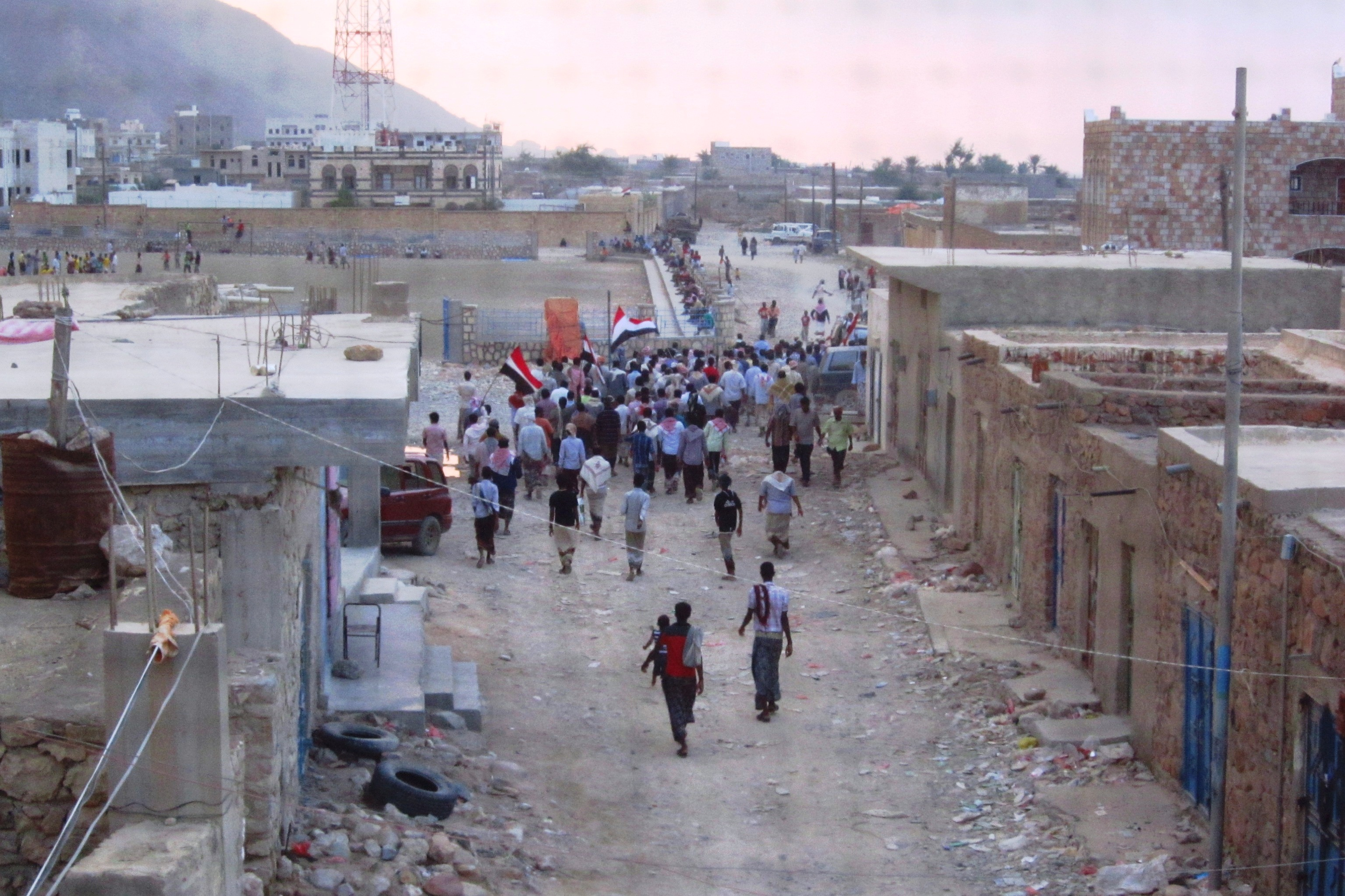 people island protest marching yemen saleh socotra soqotra hadiboh